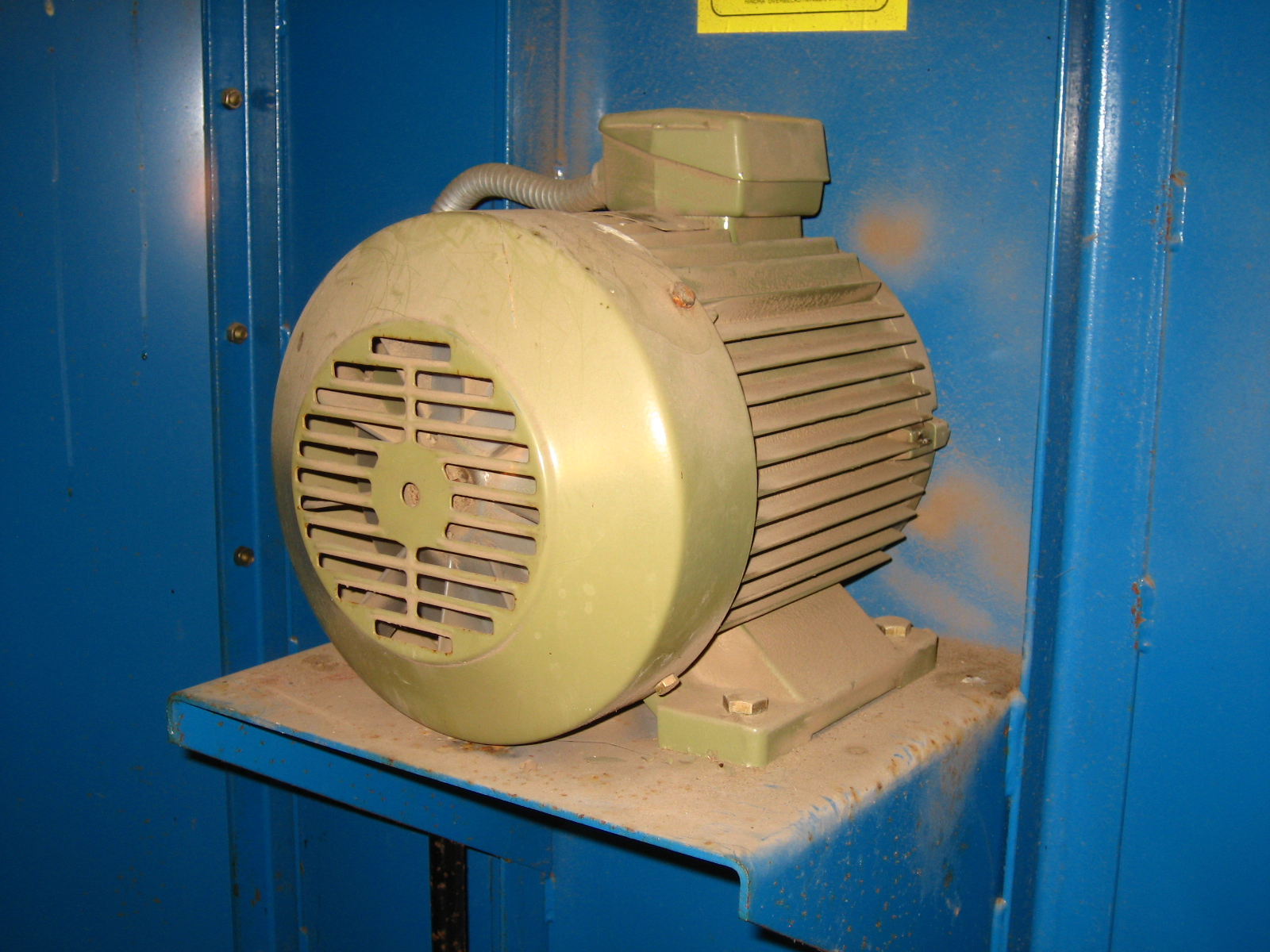 Typical induction motor